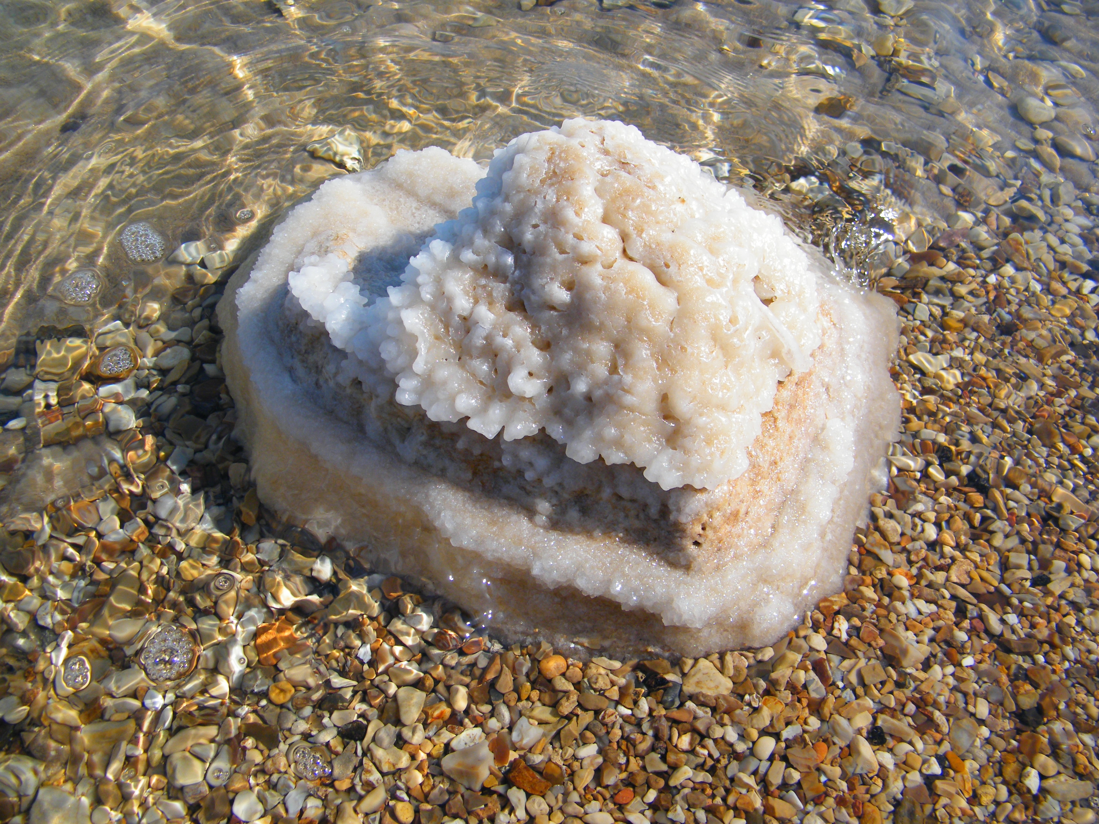 Block of salt in the Dead Sea